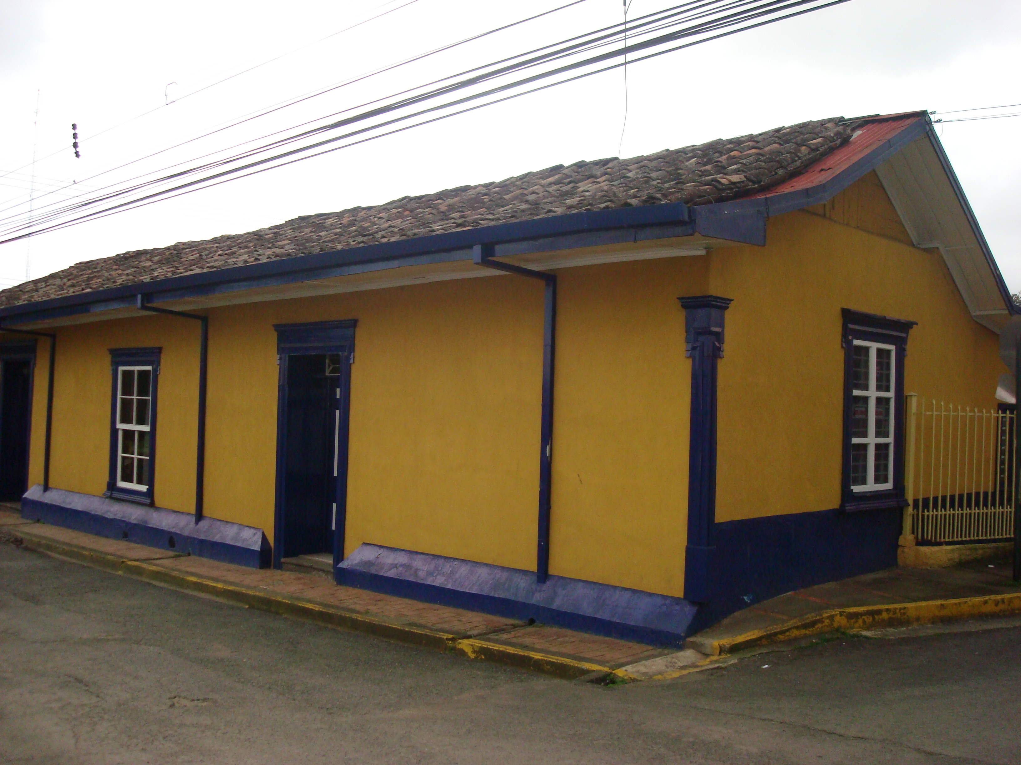 Traditional old house in Barva, Heredia